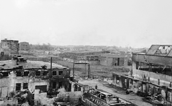 View of the damaged Focke-Wulf works at Bremen, Germany, in 1945.